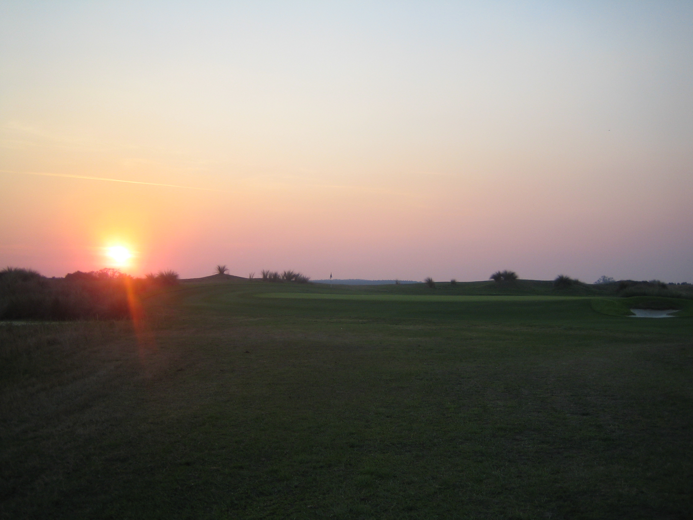 Green on the International Course of ChampionsGate Golf Club in Davenport, Florida.